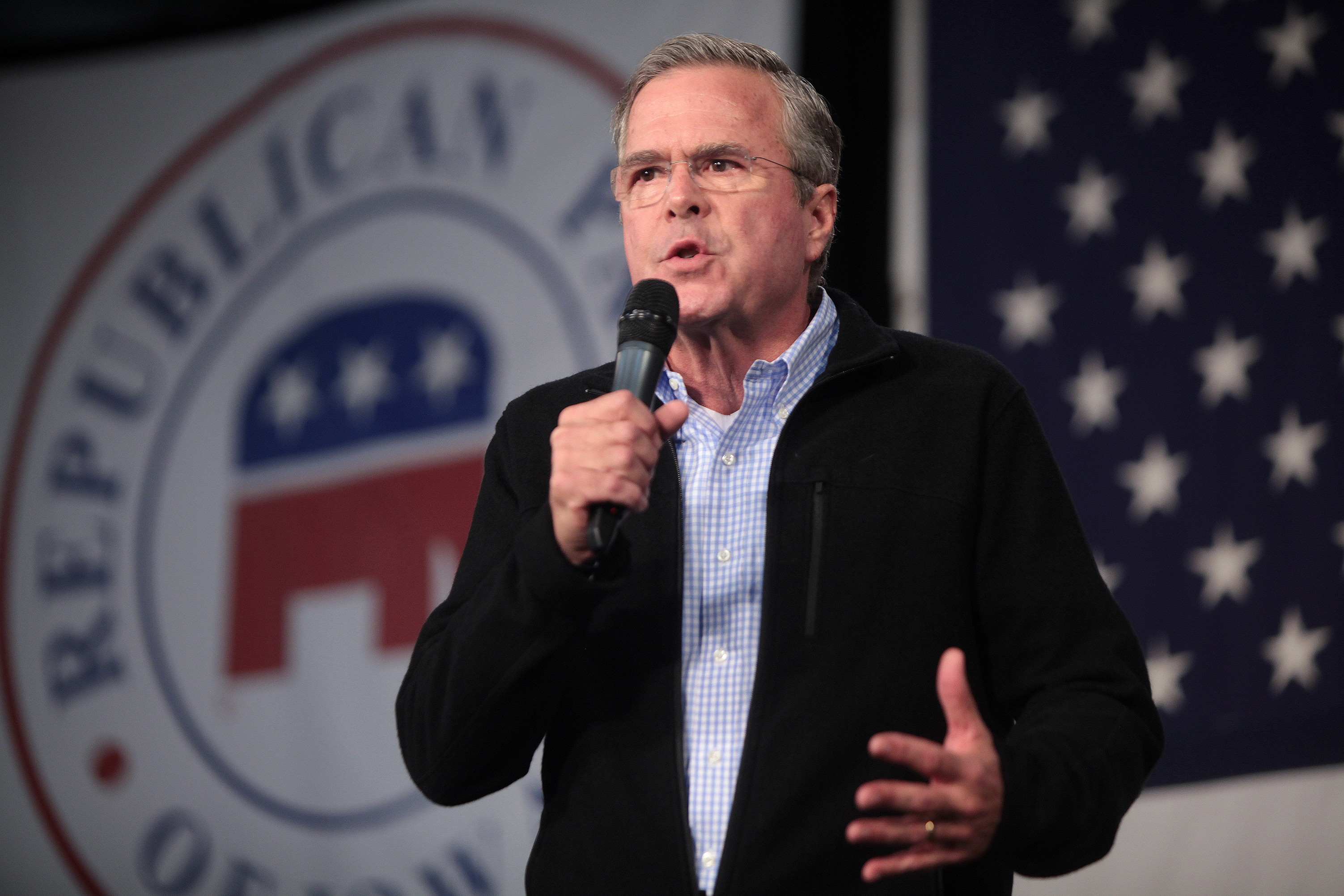 Jeb Bush speaking at the Iowa GOP's Growth and Opportunity Party in Des Moines, Iowa on October 31, 2015.